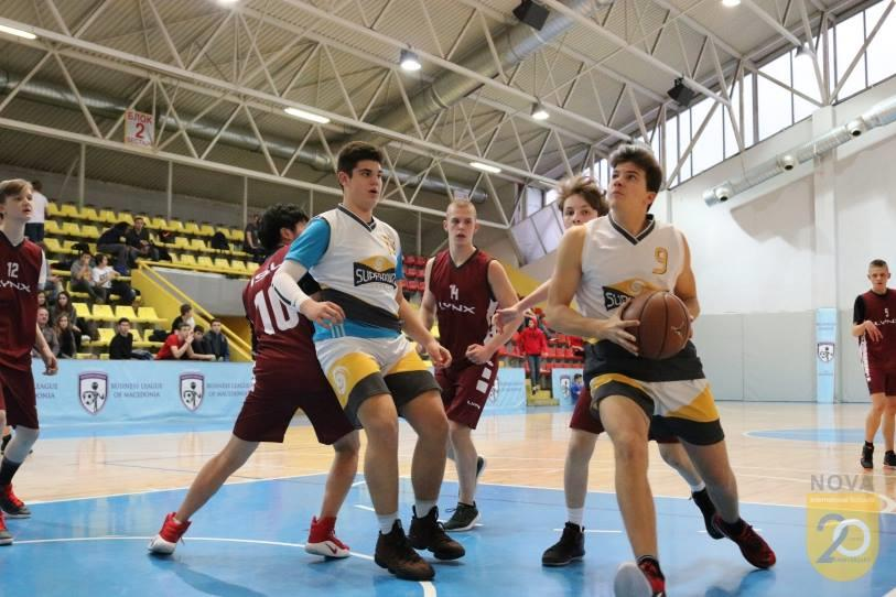 NOVA International Schools SUPERNOVA Athletics and Activities